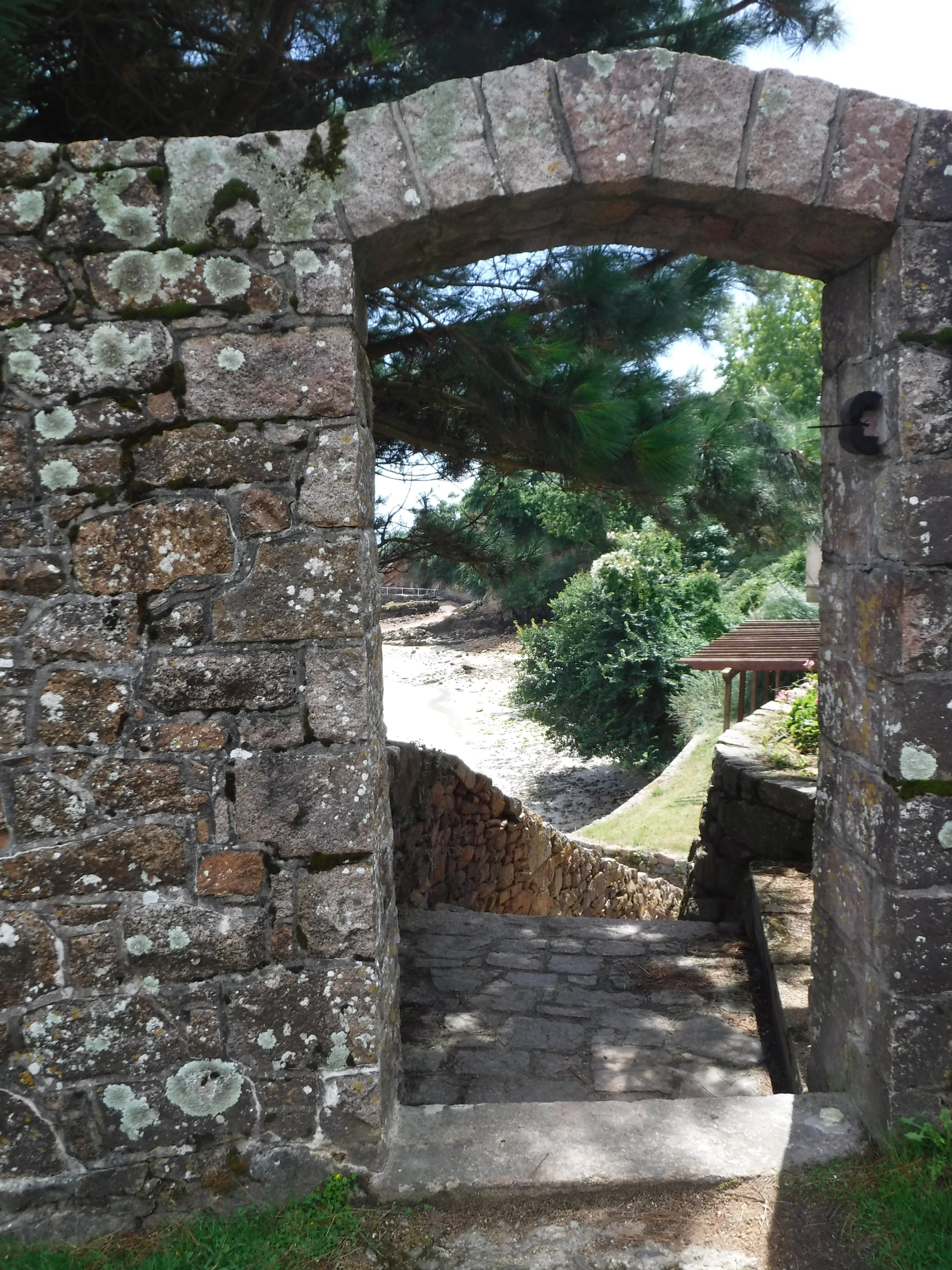 Gate of refuge at St Brelade's Church, Jersey